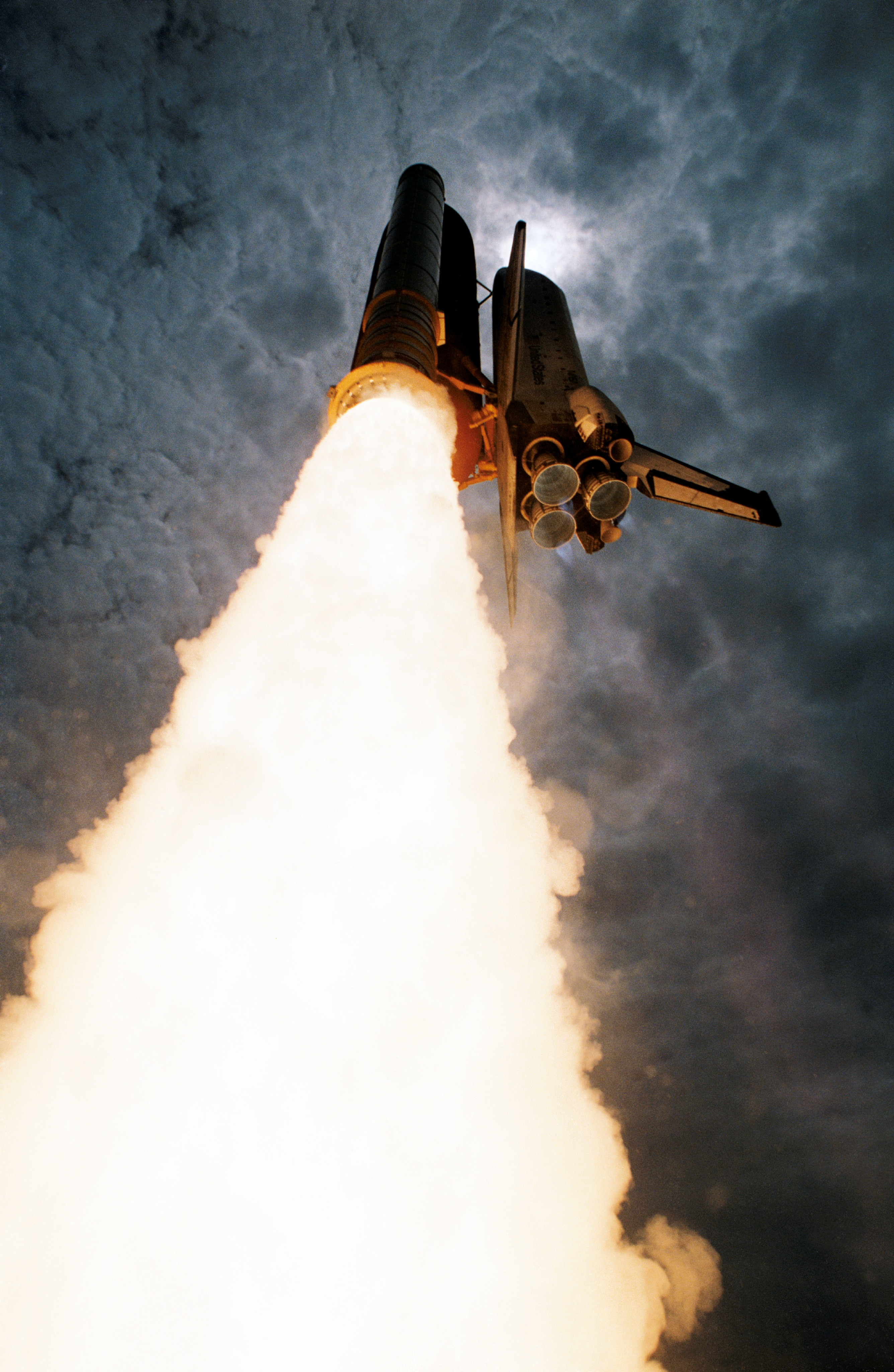 (June 25, 1992) --- The Space Shuttle Columbia lifted off from Kennedy Space Center at 12:12 p.m. (EDT) on June 25, 1992. Five NASA astronauts and two scientists/payload specialists were aboard, beginning a 13-day trip that would feature extensive research in the U.S. Microgravity Laboratory I. Altogether, 31 experiments were completed, and the crew landed on July 9.